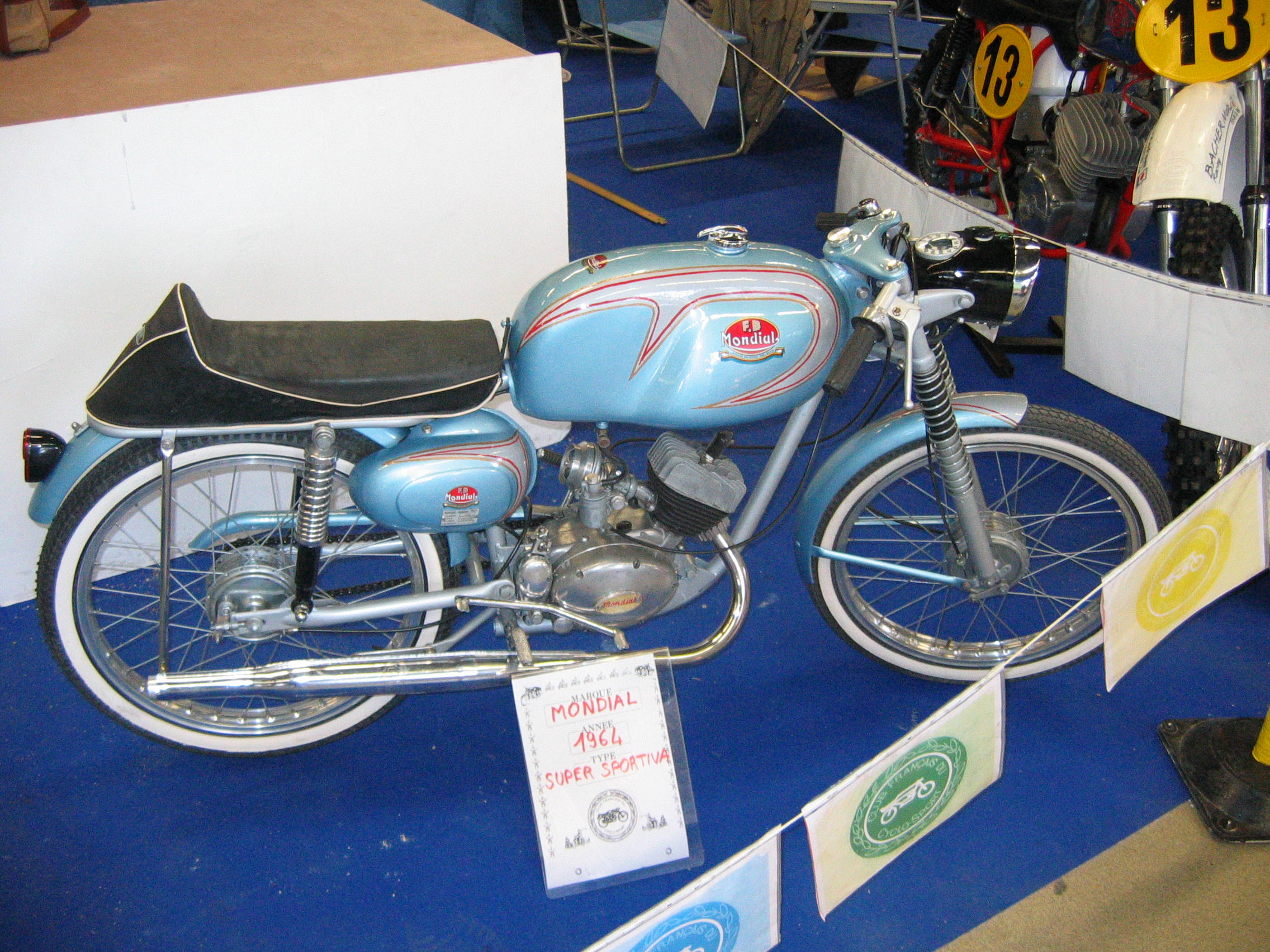 An old FB-Mondial motorcycle Picture : Gérard Delafond